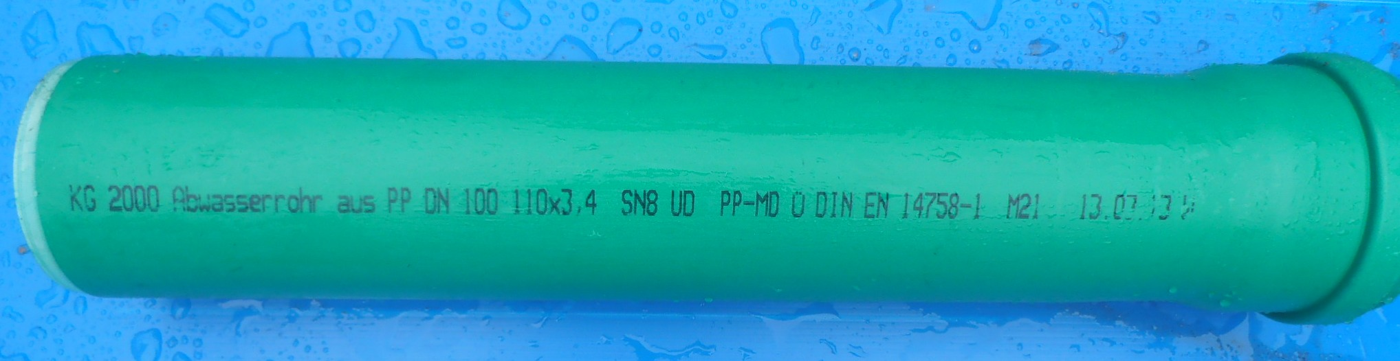 Polypropylene tube